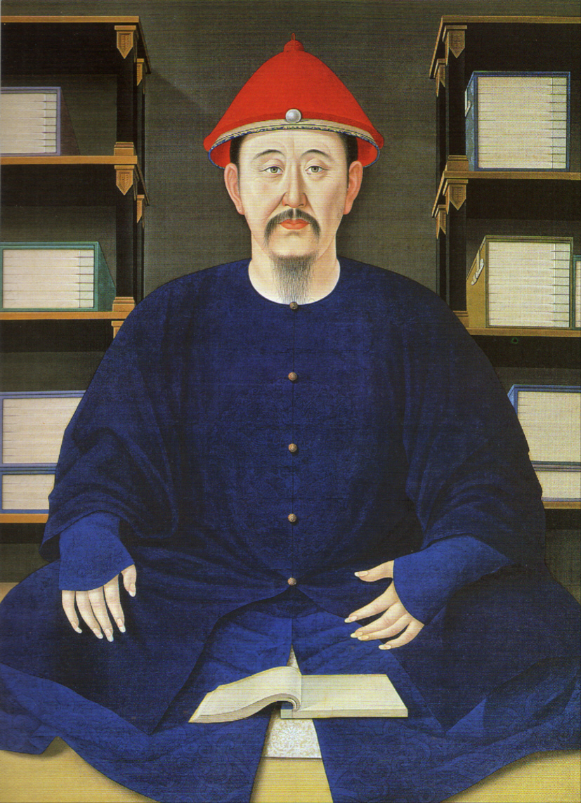 The Kangxi Emperor of the Qing dynasty, around his 40's.